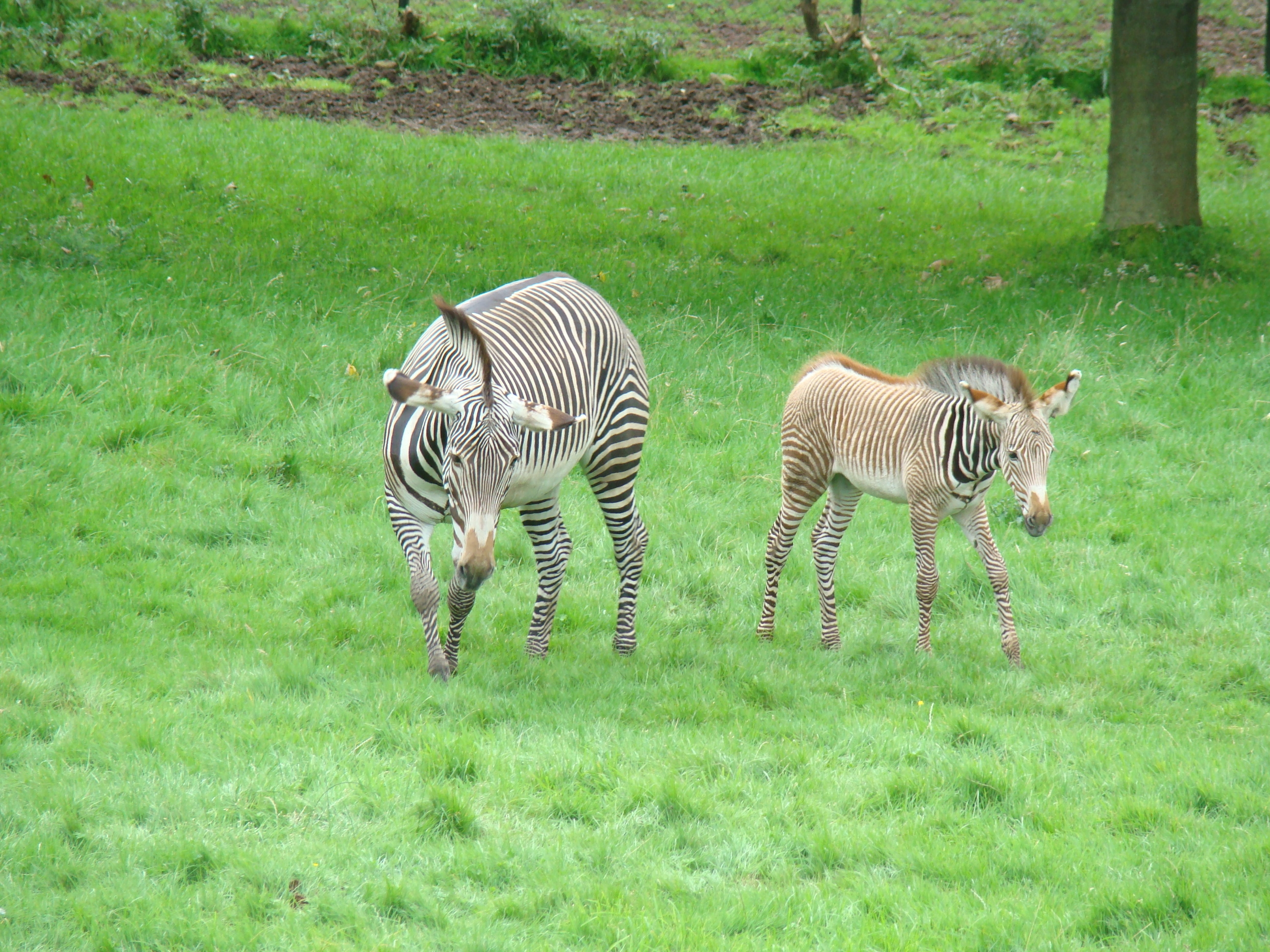 Grevy's zebra in Edinburgh Zoo